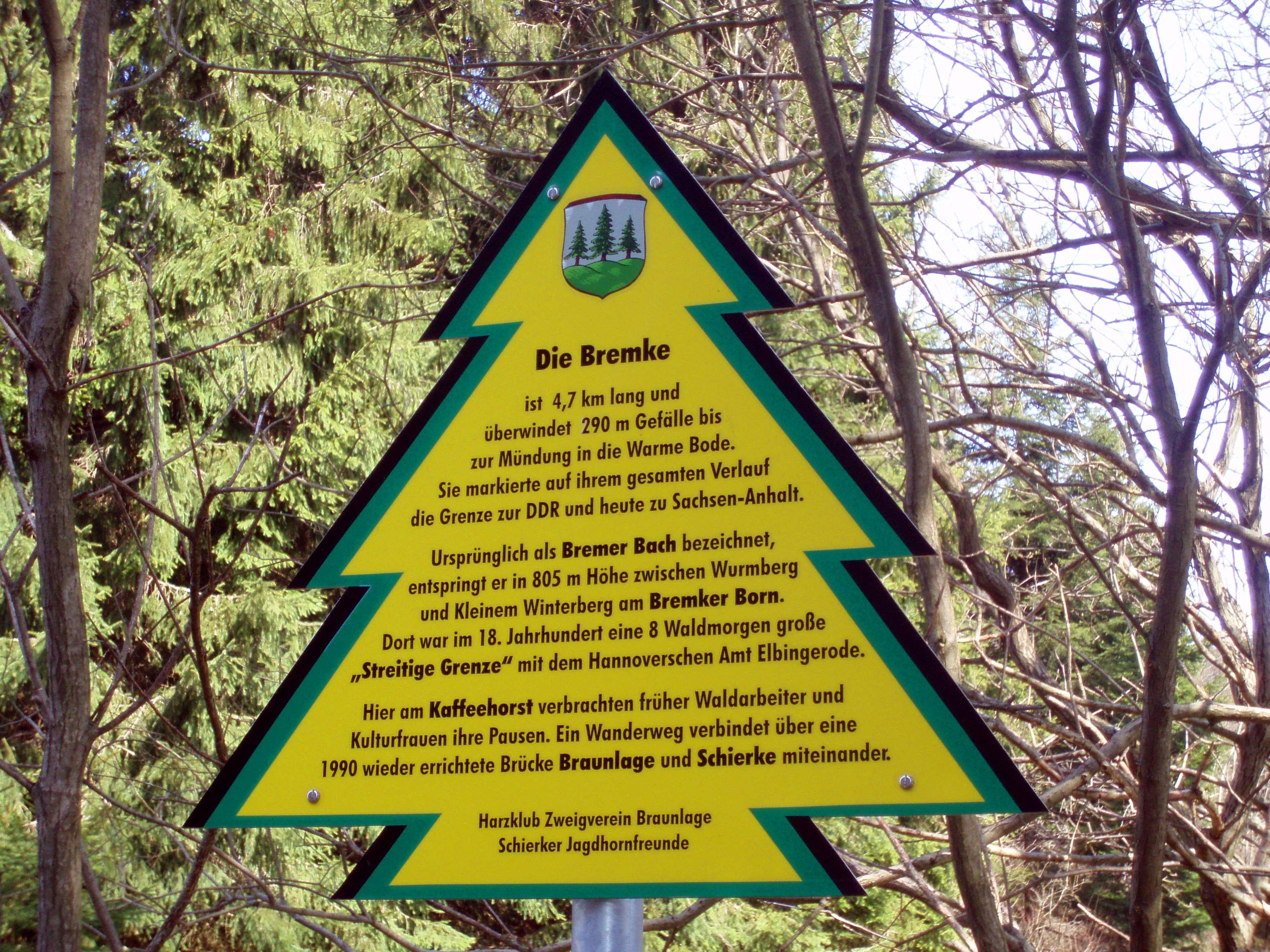 Information sign about the River Bremke in the Harz Mountains of central Germany